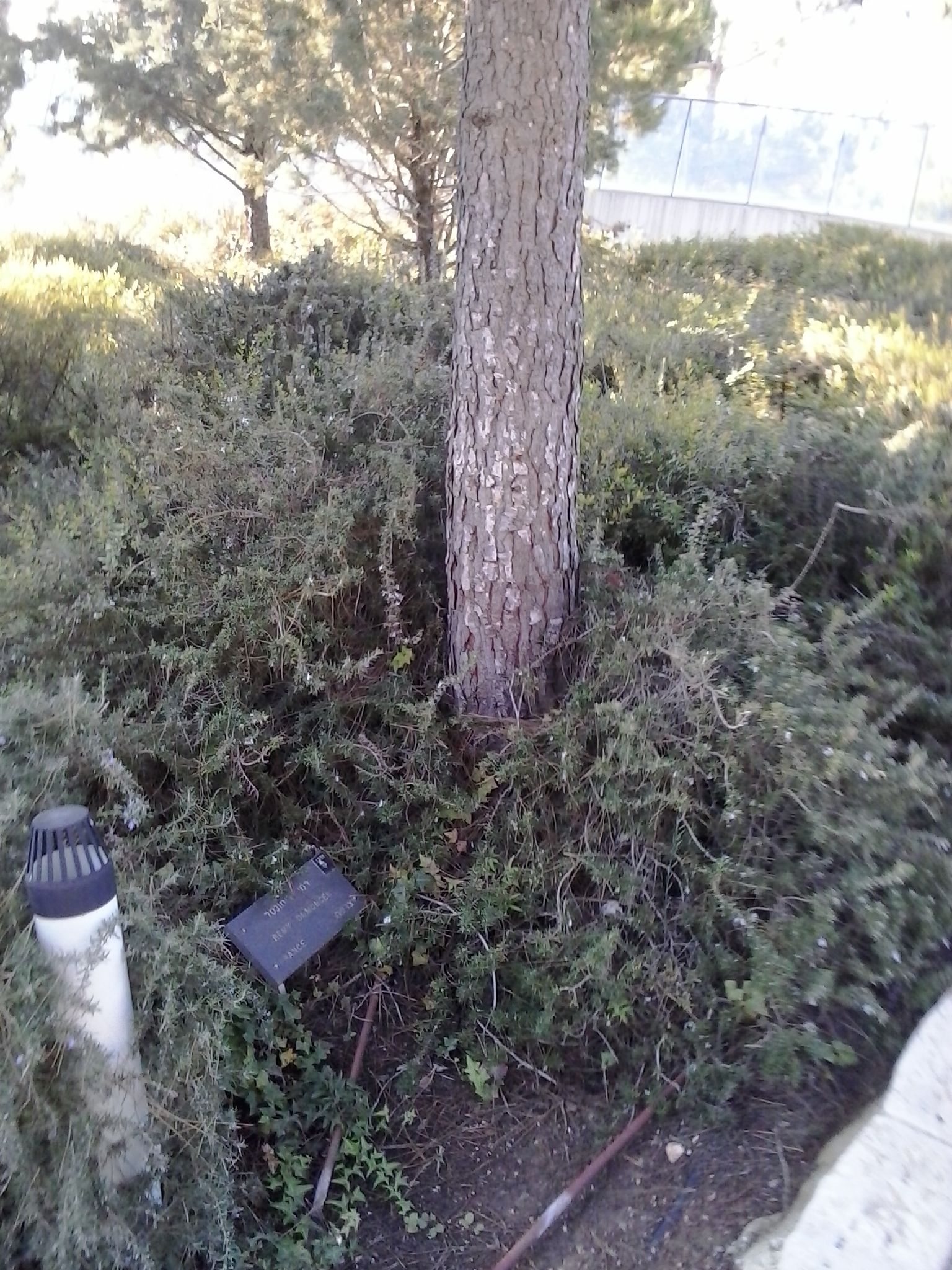 tree planted at Yad Vashem honoring Remy Dumoncel